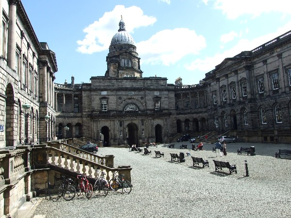 Old College Quad, University of Edinburgh. Exterior by Robert Adam (1789) whose cousin William Robertson was principal of the university at the time. Building began in 1789 but was interrupted by the Napoleonic Wars and stopped in 1793. Intermittent building and reshaping thereafter, but Adam's vision was never fully realised, with the dome not finally constructed until 1887 to a design by Rowand Anderson. The gilded figure on top is 'Youth' bearing a torch of learning by John Hutchison. (Details from J. Gifford et al "The Buildings of Scotland: Edinburgh" published by Penguin Books, 2nd ed 1991, ie 'Pevsner'.)